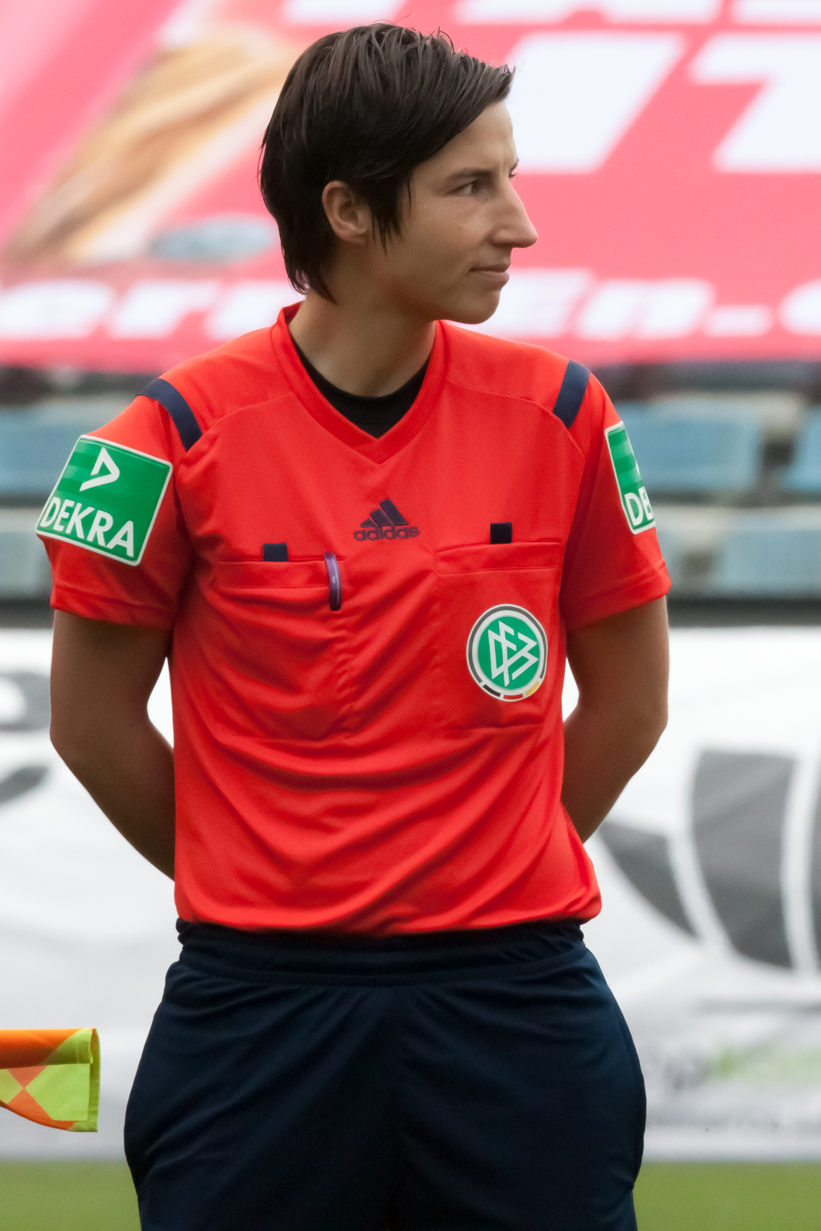 German Women Bundesliga soccer game: FF USV Jena vs. TSG 1899 Hoffenheim, 2014-10-11, at Ernst-Abbe-Sportfeld Jena.